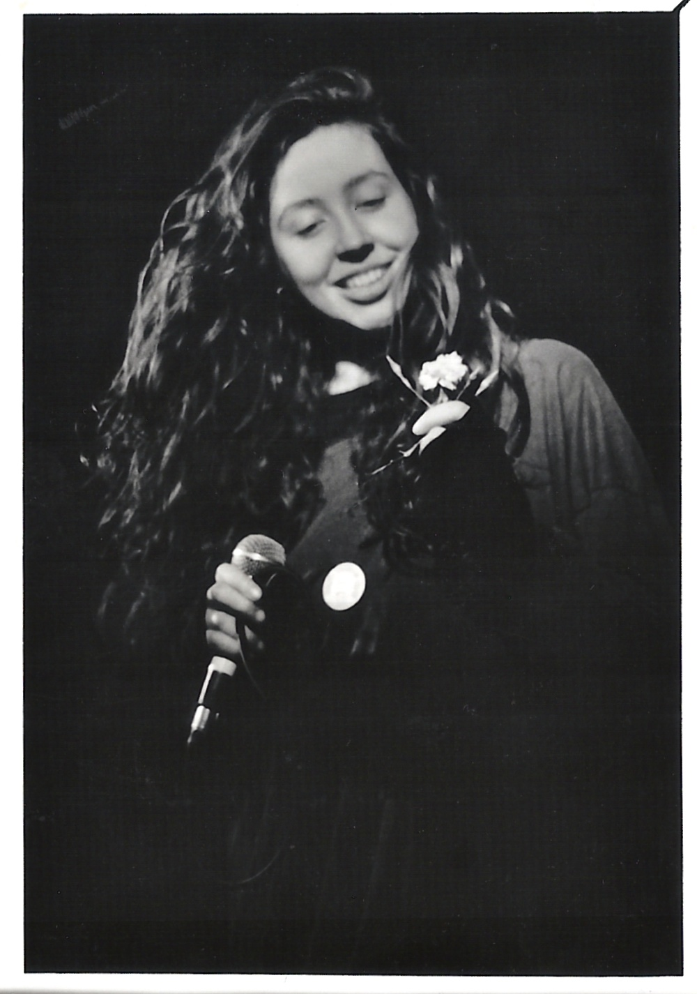 Th'Faith Healers, Roxanne the Square, Harlow 1992? th' faith healers Quality Time photo set. Features previously unpublished interview! Neate photos facebook page. More neate photos.